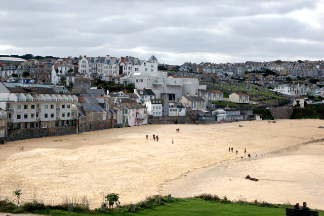 Looking west across Porthmeor beach towards Tate St Ives